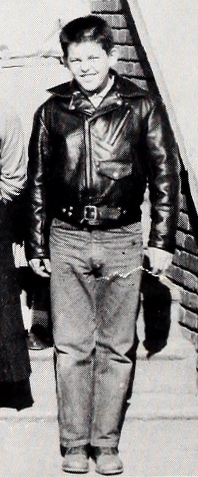 A greaser in the 8th grade in Rockingham County, North Carolina